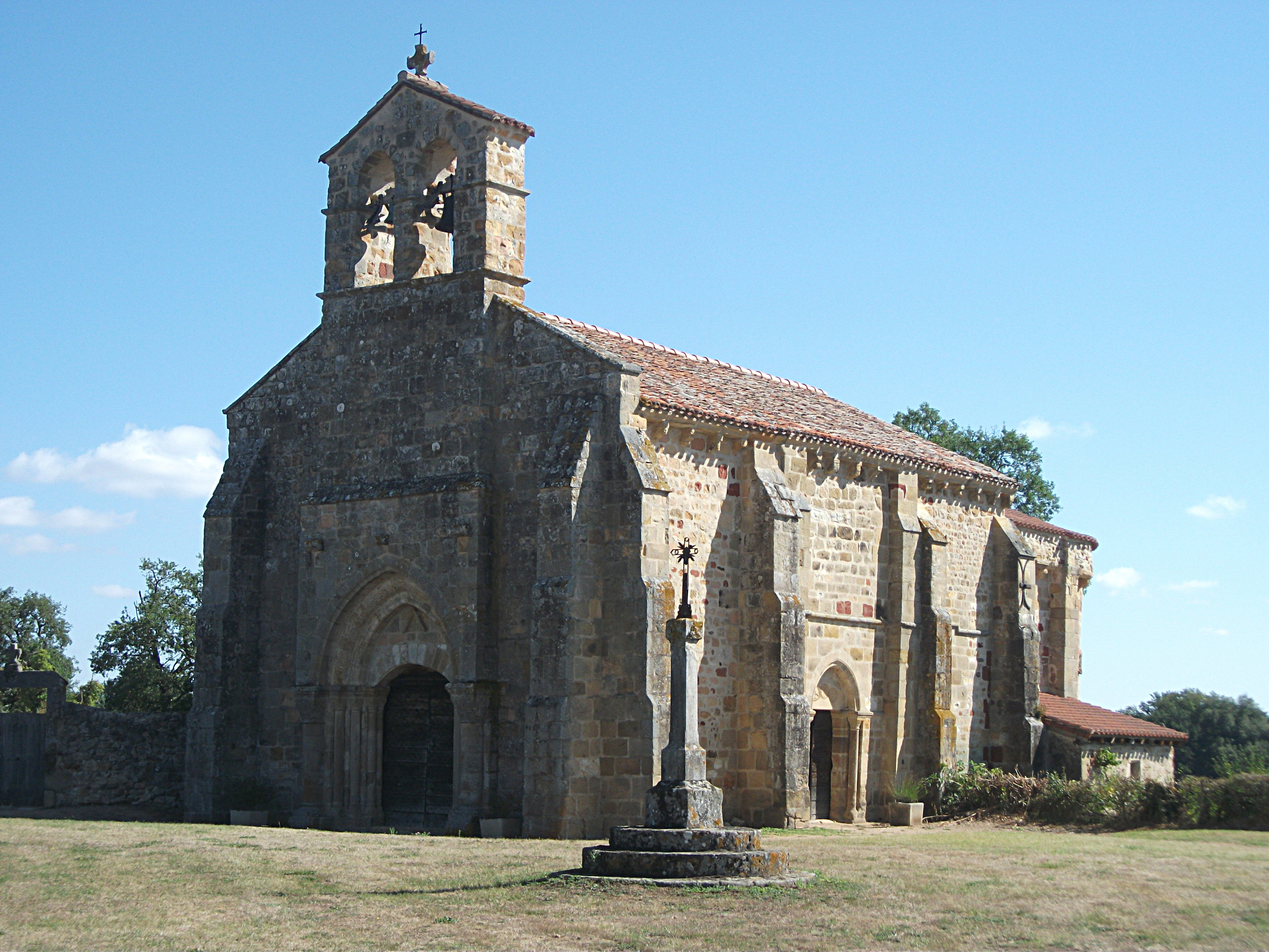 Church (Saint-Germain) in Sauvagny, Allier, Auvergne-Rhône-Alpes, France. [16692]